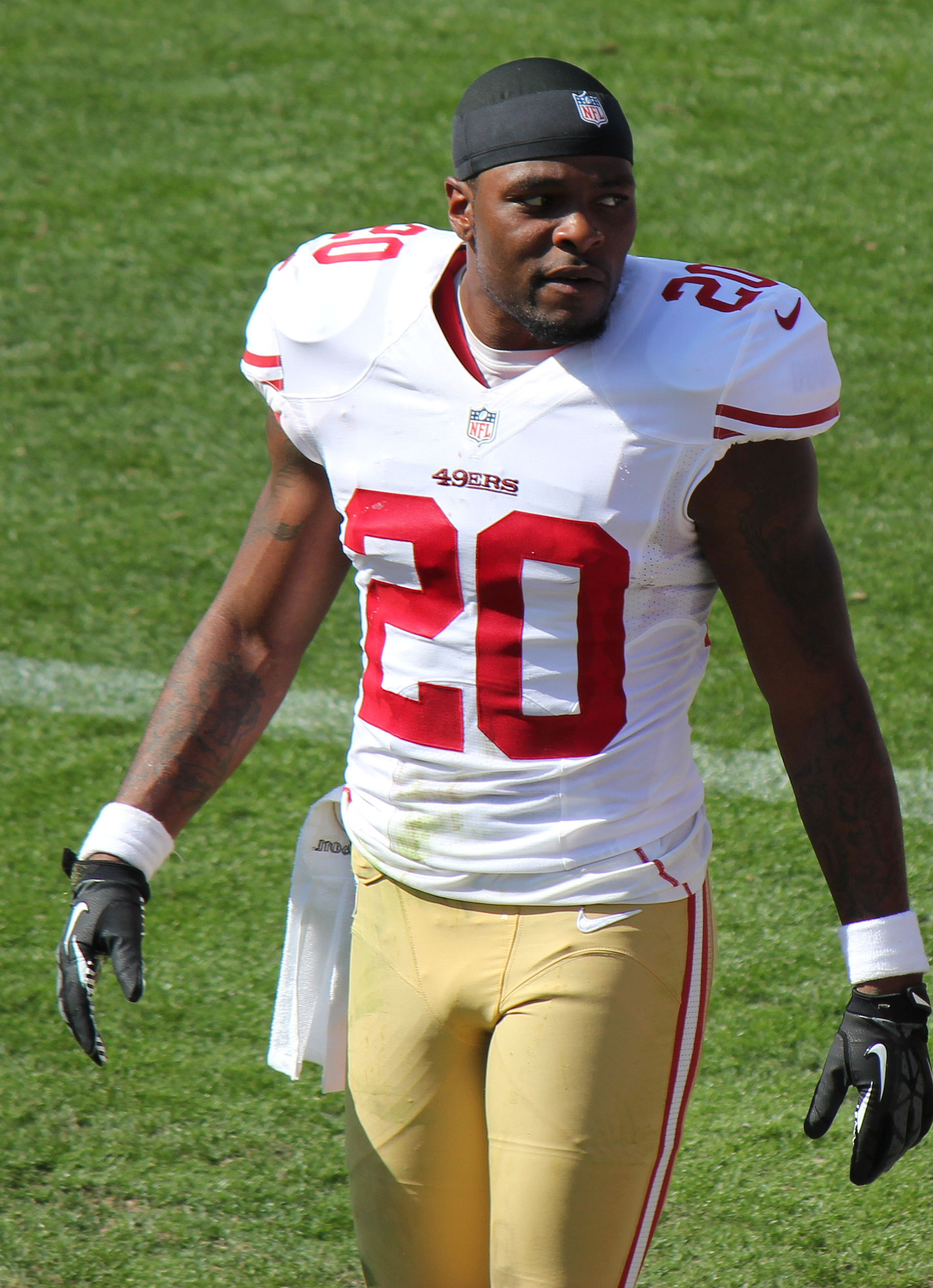 Perrish Cox, a player on the National Football League.